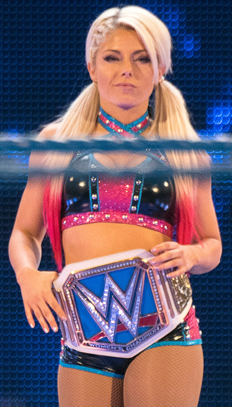 WWE Superstar Alexa Bliss posing with her SmackDown Women's Championship during a WWE SmackDown event in December 2016.